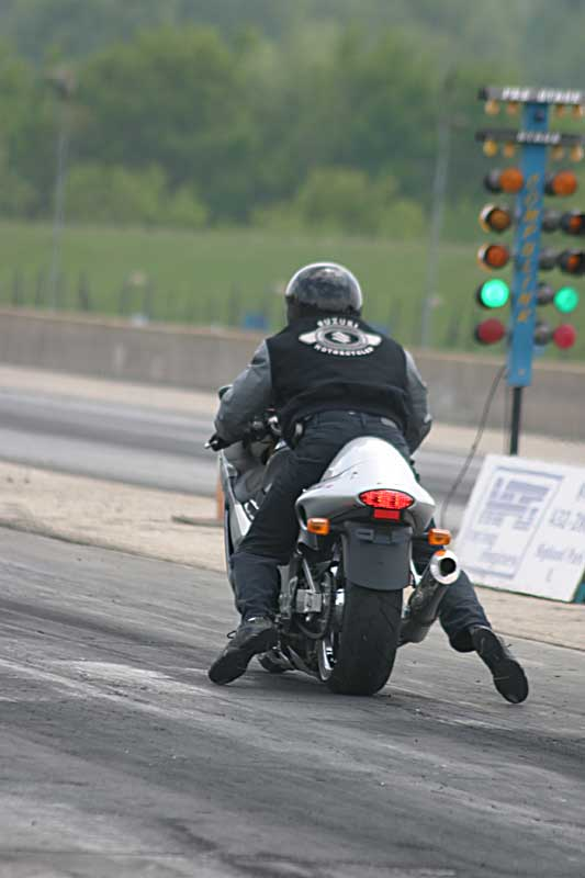 A motorcycle launches at a drag strip in Byron, Illinois on 2003-05-17. Author: Interiot